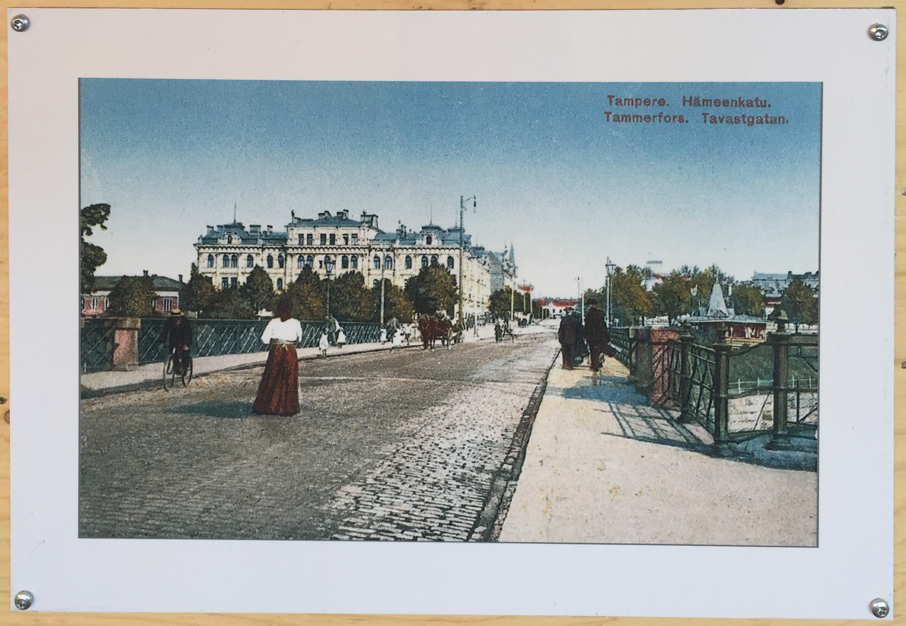 Picture of poster on construction site at Tammerkoski, portraying a post card of Hämeenkatu also featuring its Swedish name Tavastgatan